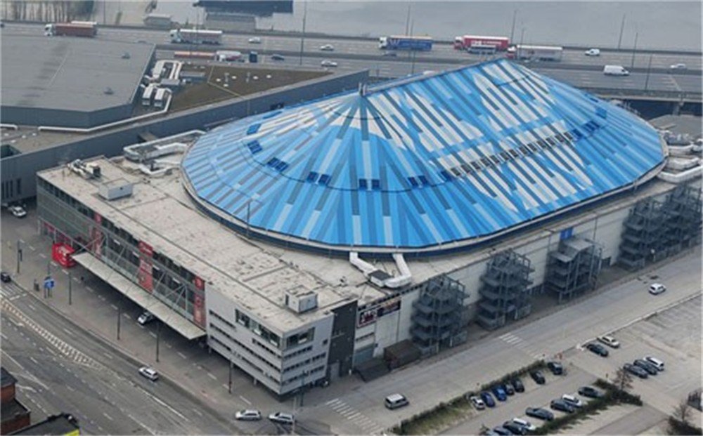 the sportpaleis